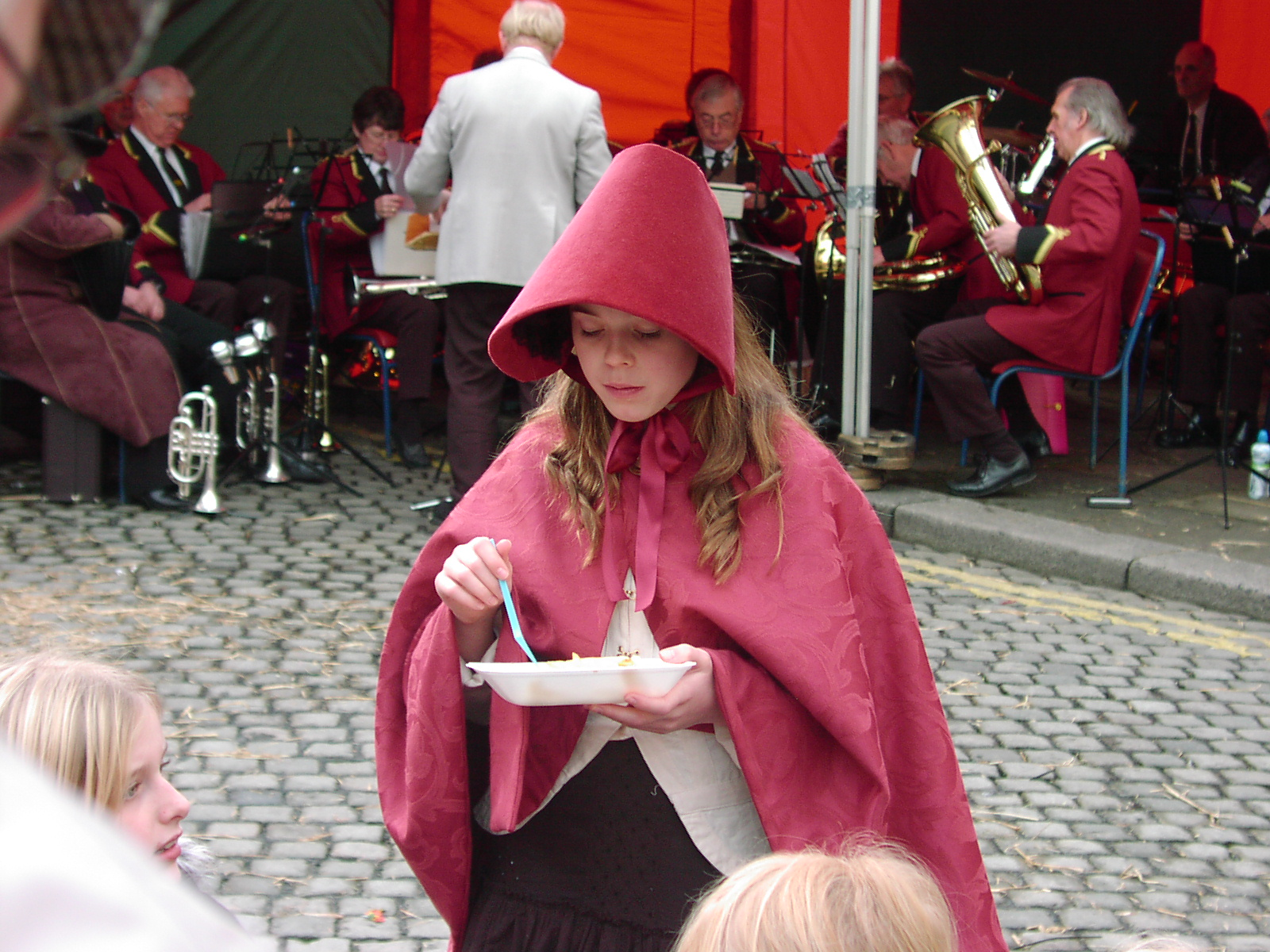 Ulverston Dickensian Festival 2007. No Victorian weekend is complete without "Ye Olde Chips In A Ye Olde Plastic Tray With Ye Olde Plastic Fork".